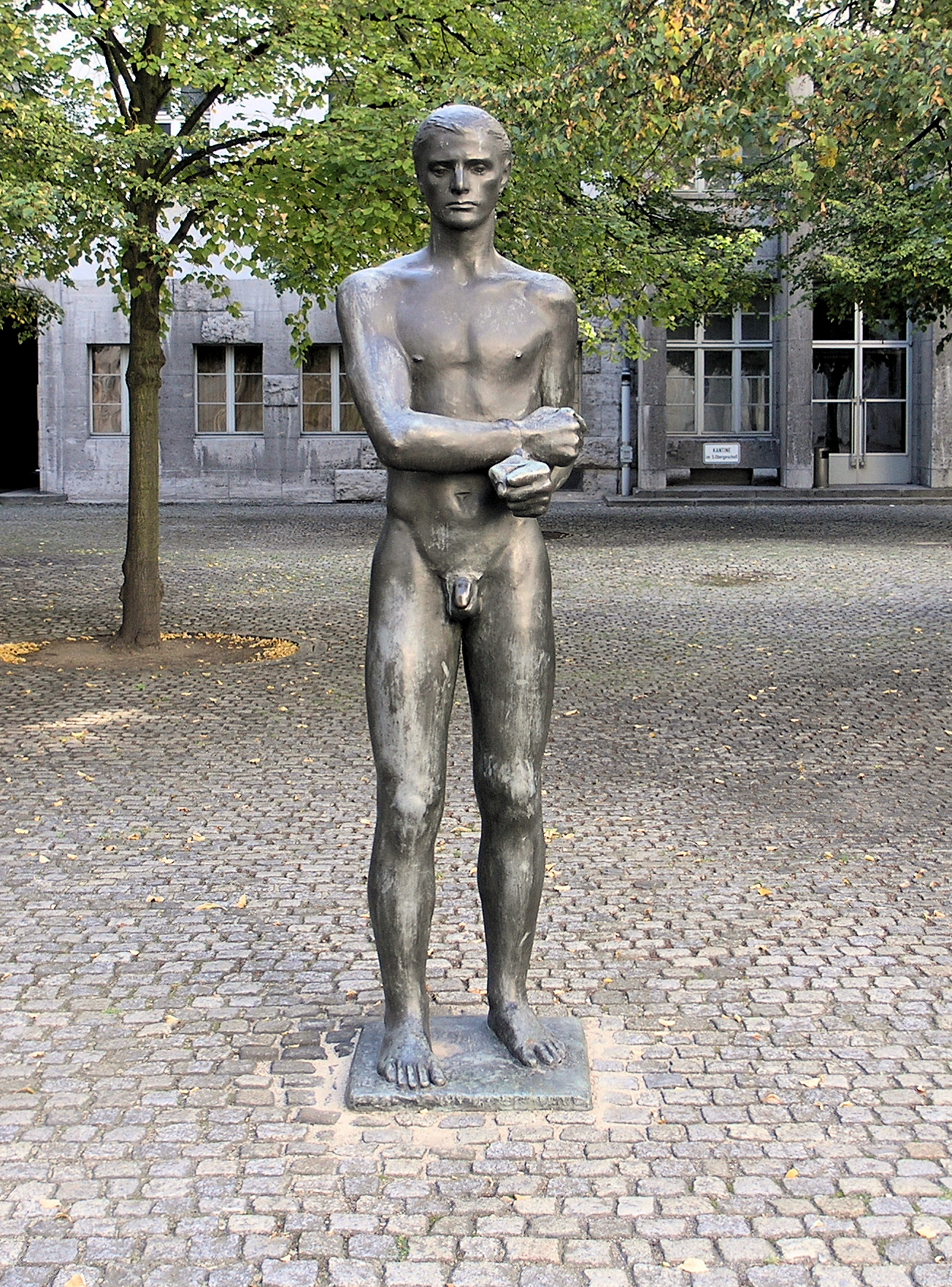 Statues, "Denkmal für die Opfer des 20. Juli 1944" by Richard Scheibe, 1953, Stauffenbergstraße 13, Berlin-Tiergarten, Germany